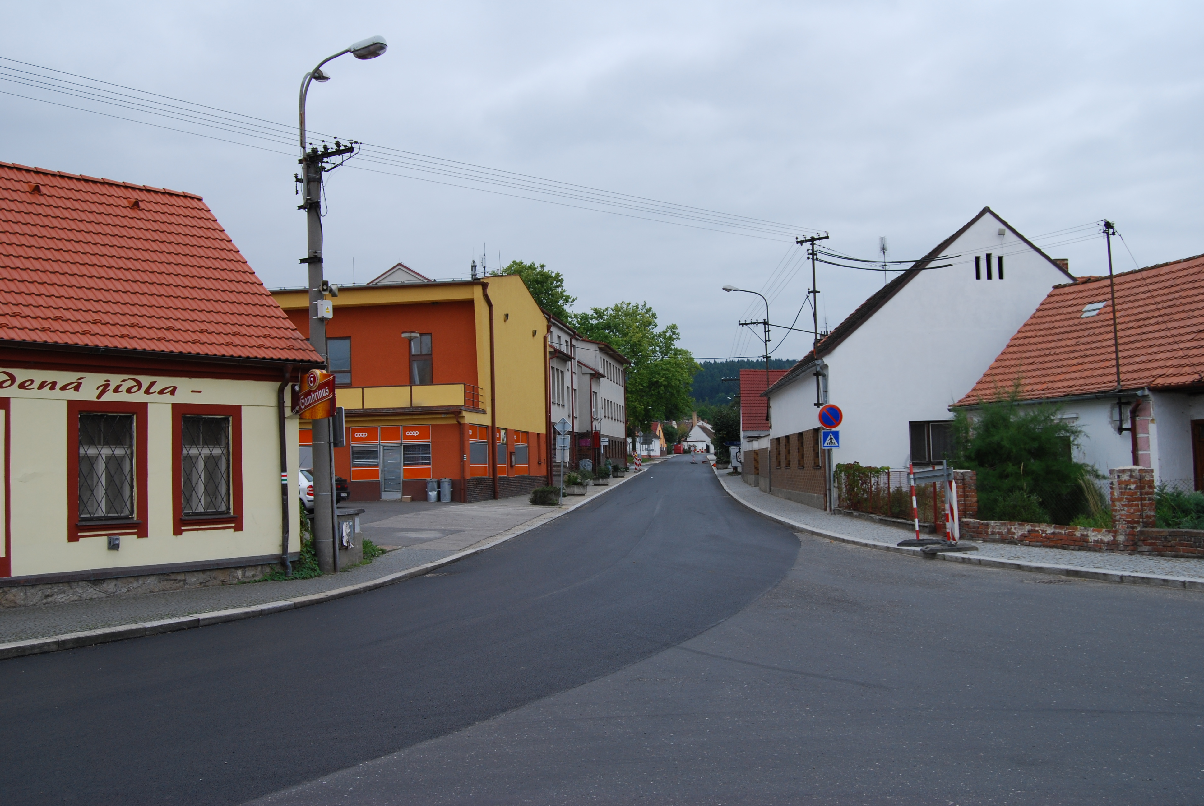 Albrechtice nad Vltavou village in Pisek District, Czech Republic.